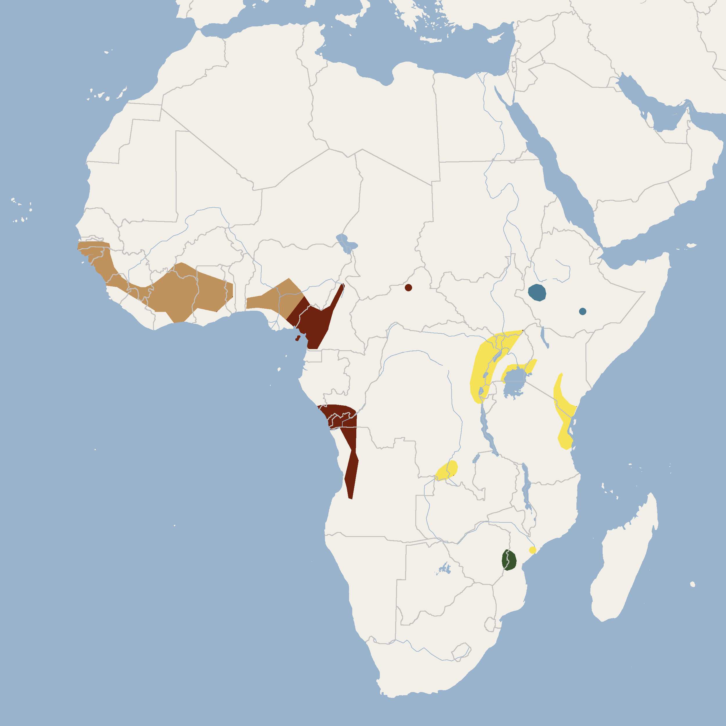 According to Happold & Happold, 2013 L.a.angolensis L.a.goliath L.a.petraea L.a.ruwenzorii L.a.smithi